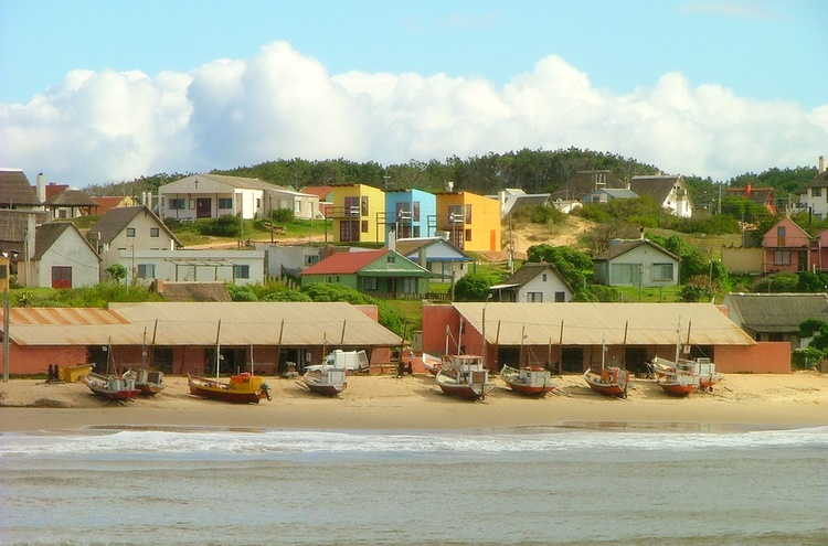 Coast of Punta del Diablo, Uruguay.